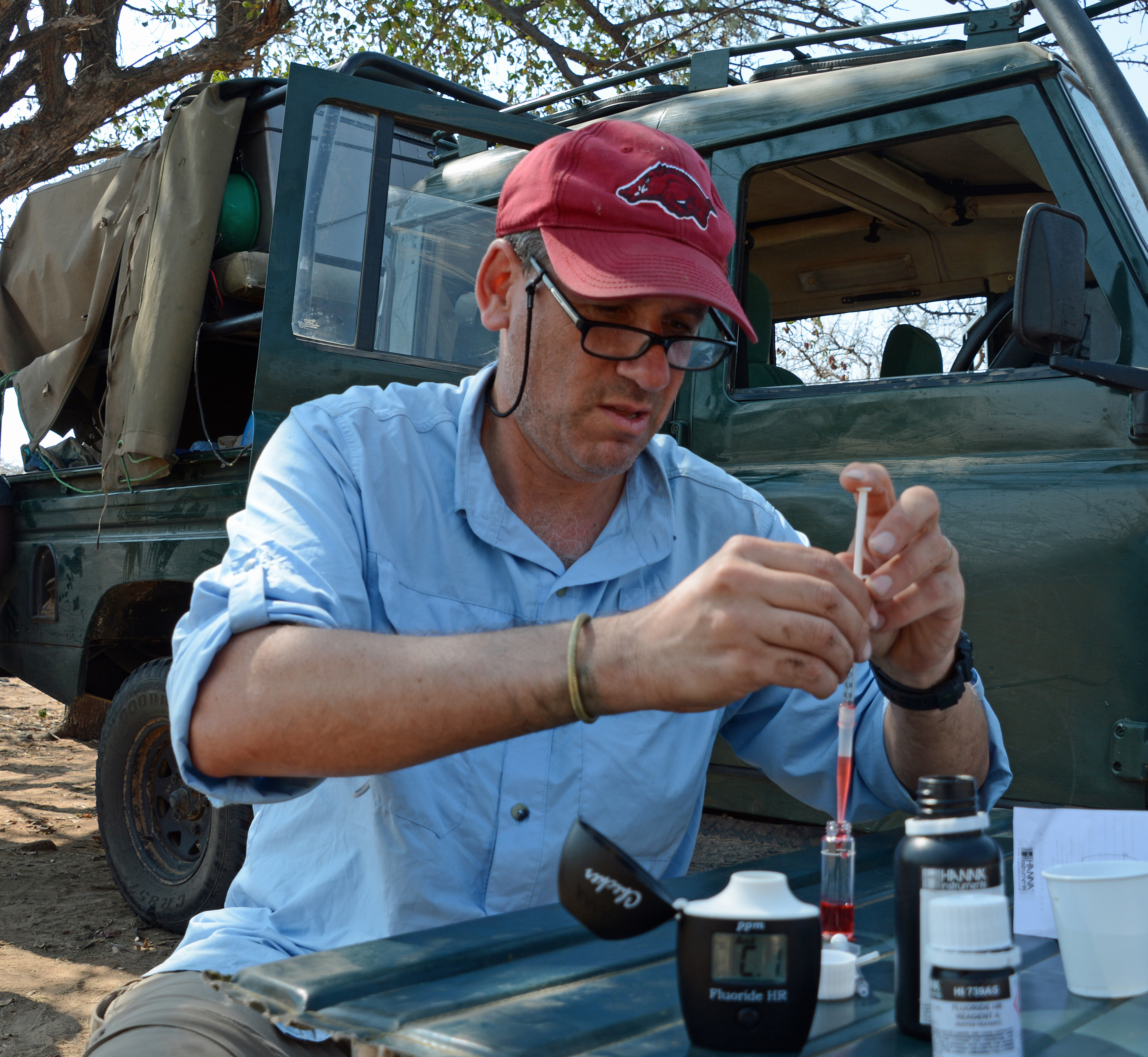 Fluoride testing on Gideru Ridge